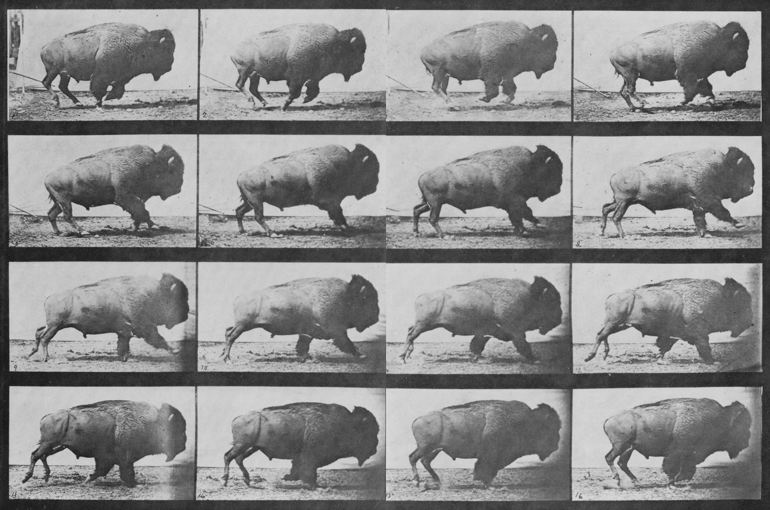 Sequence of a buffalo (American bison) galloping. Photos taken by Eadweard Muybridge (died 1904), first published in 1887 at Philadelphia (Animal Locomotion).